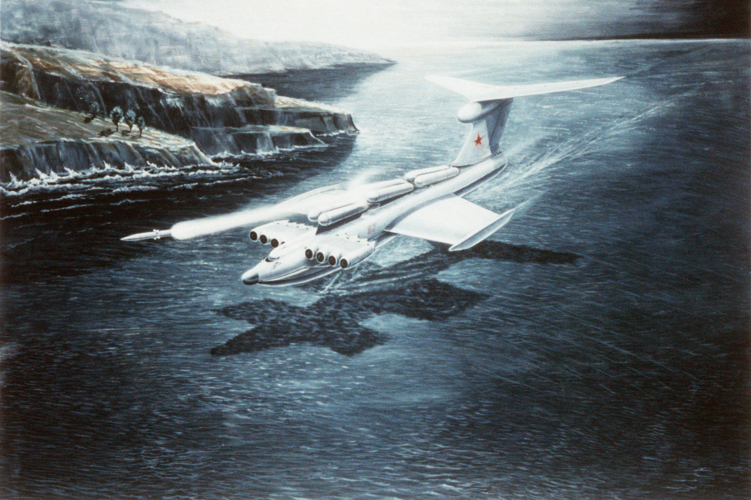 An artist's concept of a Soviet wing-in-ground effect vehicle (hand sketched illustration)